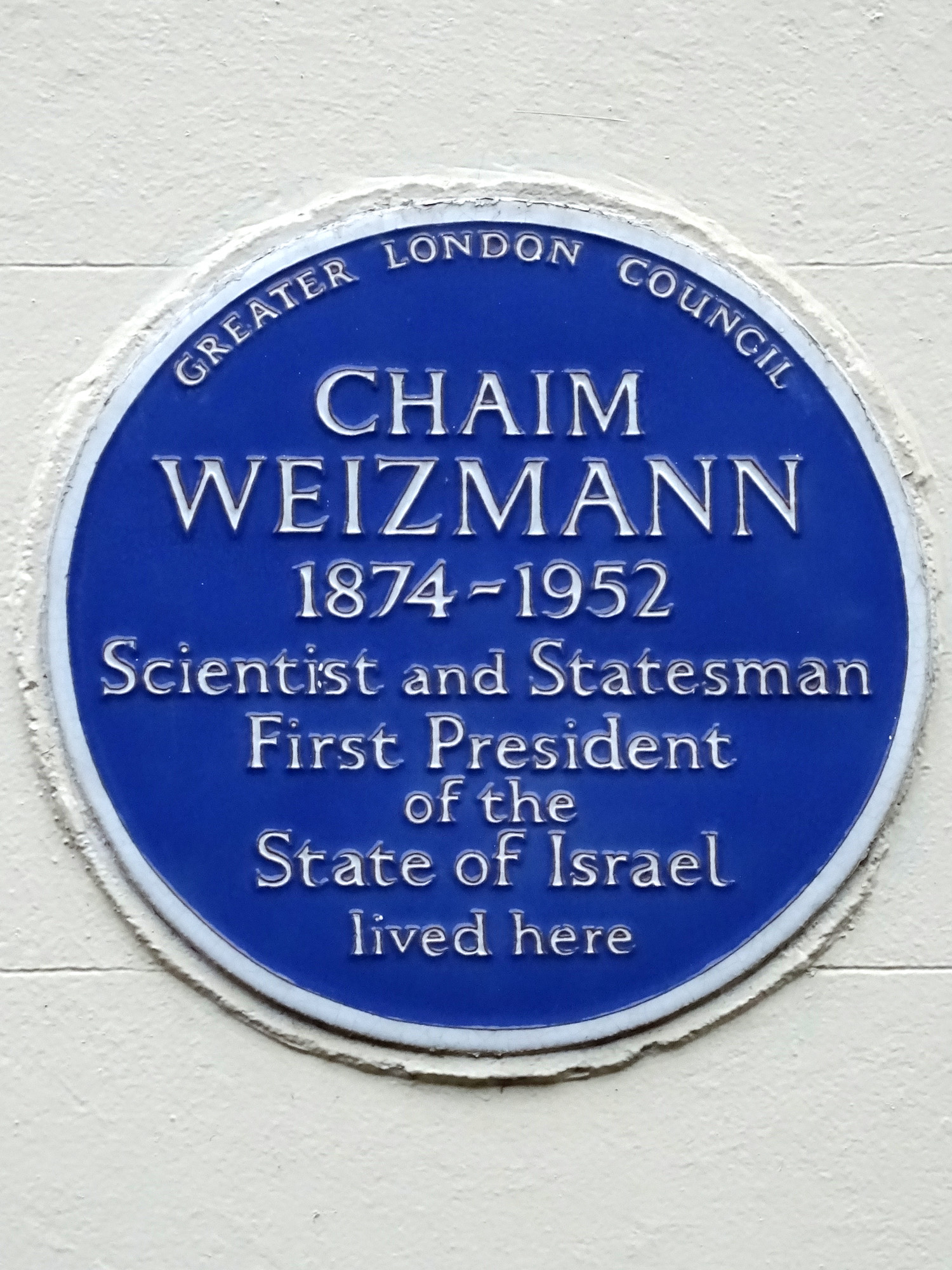 Blue plaque erected in 1980 by Greater London Council at 67 Addison Road, Holland Park, London W14 8JL, Royal Borough of Kensington and Chelsea